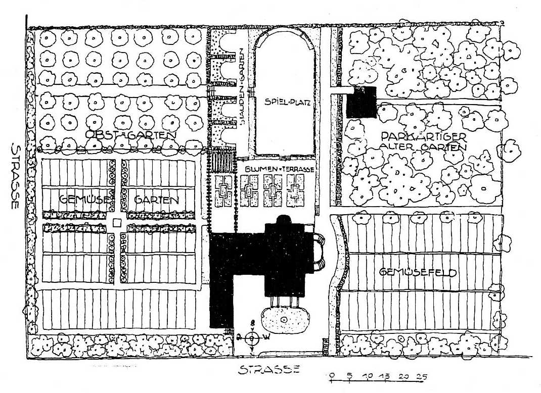 Heilbronn Grundriss der Villa_Rümelin_Lerchenstr._Ecke_Alexanderstr._Lageplan_des_Hauses_Rümelin.jpg